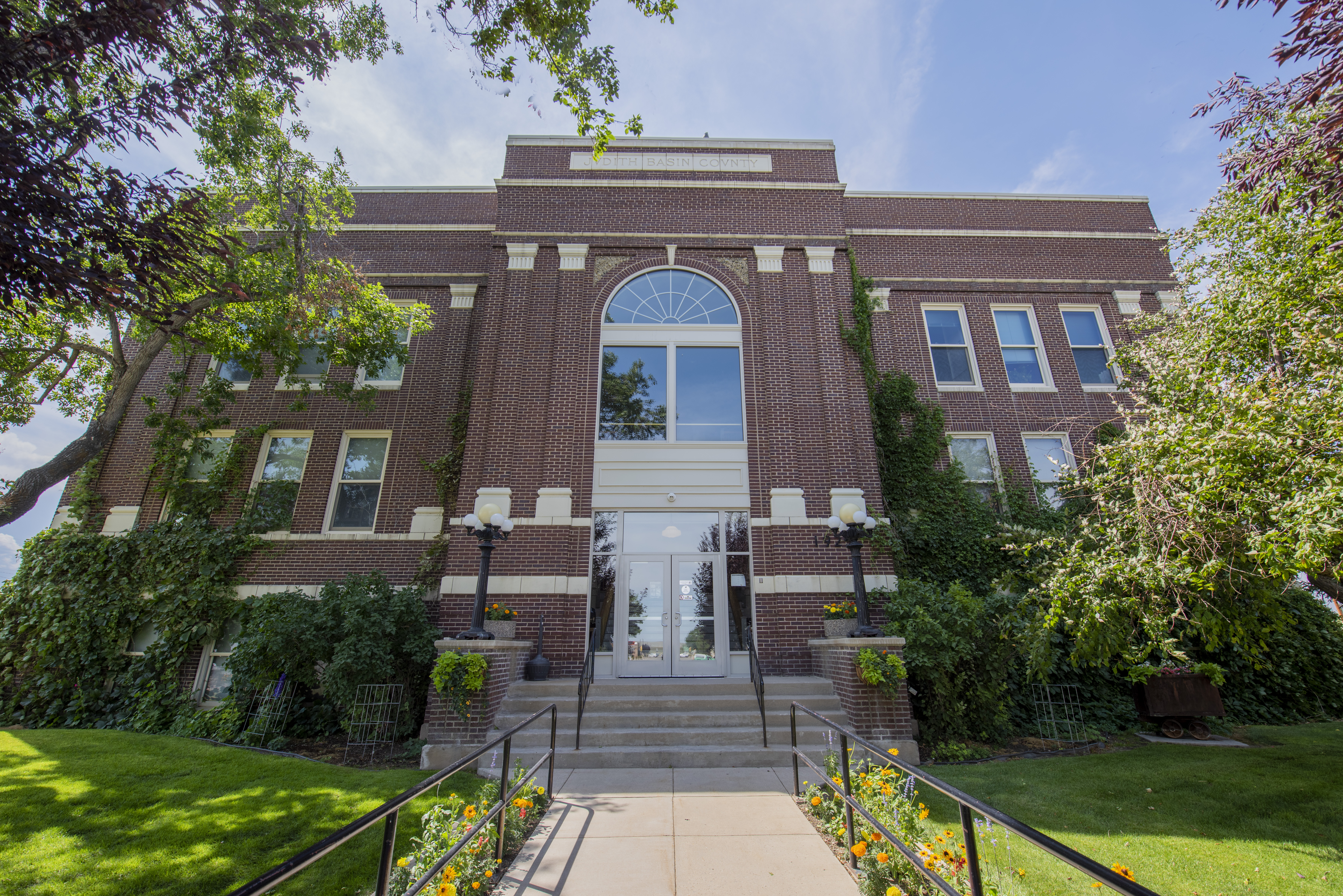 Photograph of the Judith Basin Courthouse in Stanford, Montana. Image taken in July 2020.